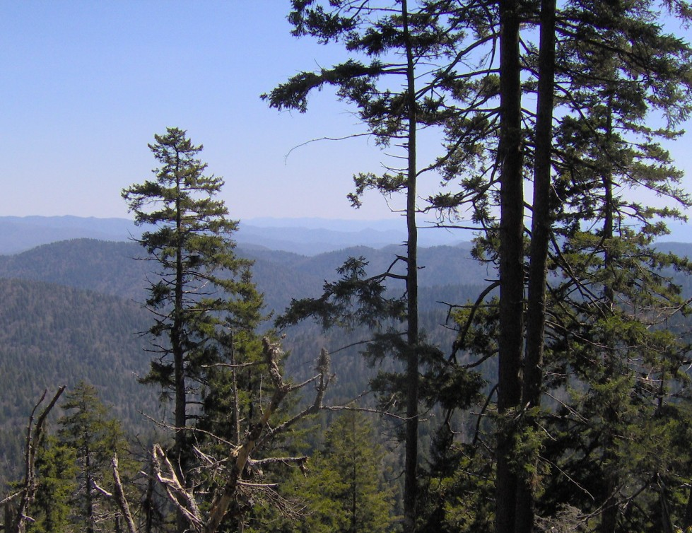 Looking south from Mount Sequoyah (el. 6,003 feet/1,830 meters) in the Great Smoky Mountains National Park. Trees are Picea rubens (Red spruce). This view is along the Appalachian Trail, just before the descent and re-ascent to Mount Chapman. Mount Sequoyah is a 12-mile (19km) hike from the nearest parking lot.